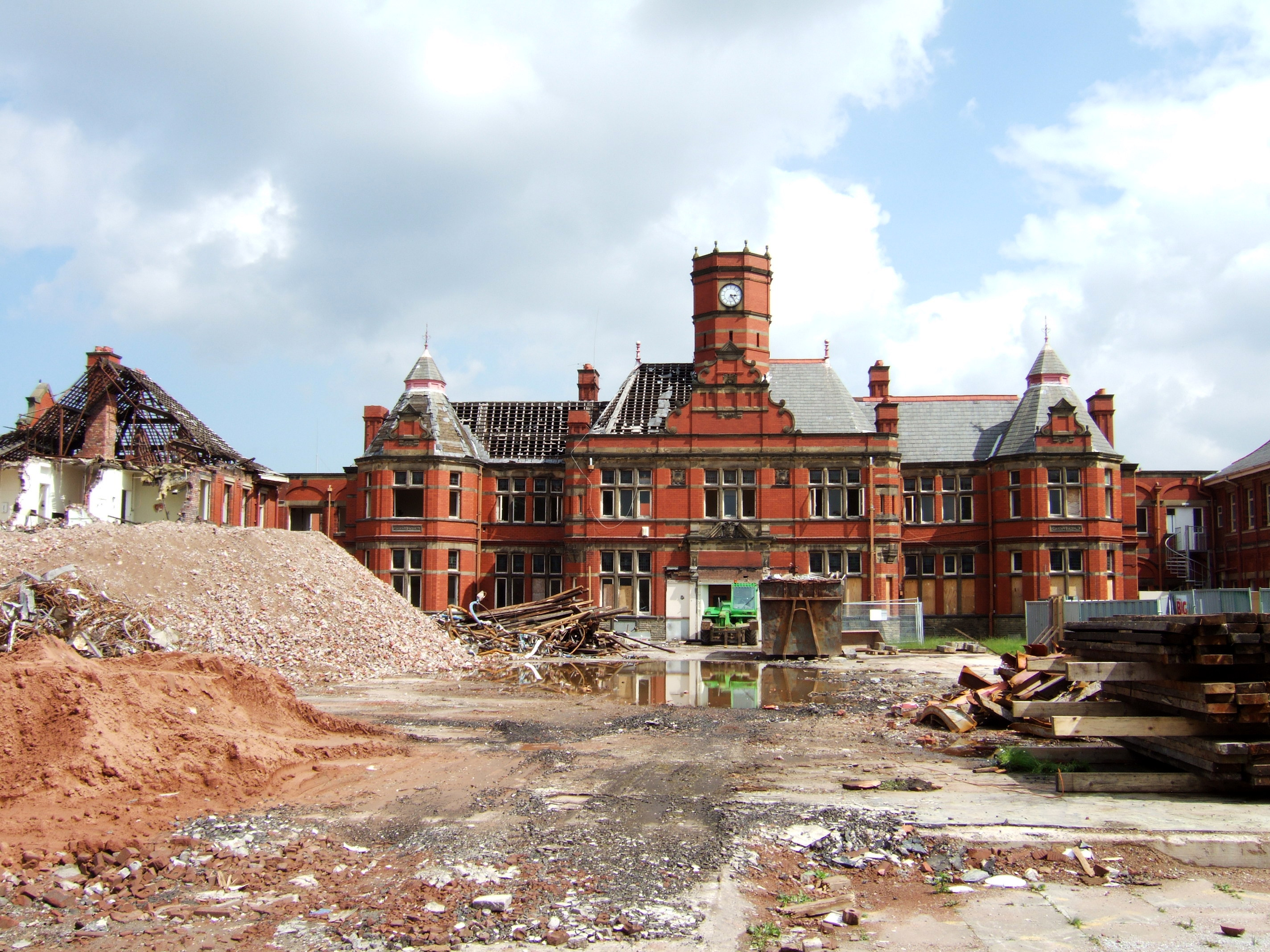 The main site of Southport General Infirmary undergoing demolition.